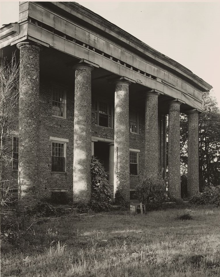 Title Wade House, Huntsville vic., Madison County, Alabama Contributor Names Johnston, Frances Benjamin, 1864-1952, photographer Created / Published 1939. Subject Headings - United States--Alabama--Madison County--Huntsville vic. - Columns. - Porticoes (Porches). - Houses. - Abandoned buildings. - Alabama--Madison County--Huntsville Vic Format Headings Photographic prints. Notes - Title from photographer's inventory. - Related name: R.B. Wade. - Brick columns. - Corresponding Carnegie Survey of the Architecture of the South neg. no. is LC-J7-ALA-1094. Negative was not found in 2009. - Forms part of: Carnegie Survey of the Architecture of the South (Library of Congress). Medium 1 photographic print. Call Number/Physical Location LOT 11833-45 [item] [P&P] Repository Library of Congress Prints and Photographs Division Washington, D.C. 20540 USA Digital Id csas 00102 //hdl.loc.gov/loc.pnp/csas.00102 Control Number csas200800103 Reproduction Number LC-DIG-csas-00102 (digital file from print) Rights Advisory No known restrictions on publication. Online Format image Description 1 photographic print.